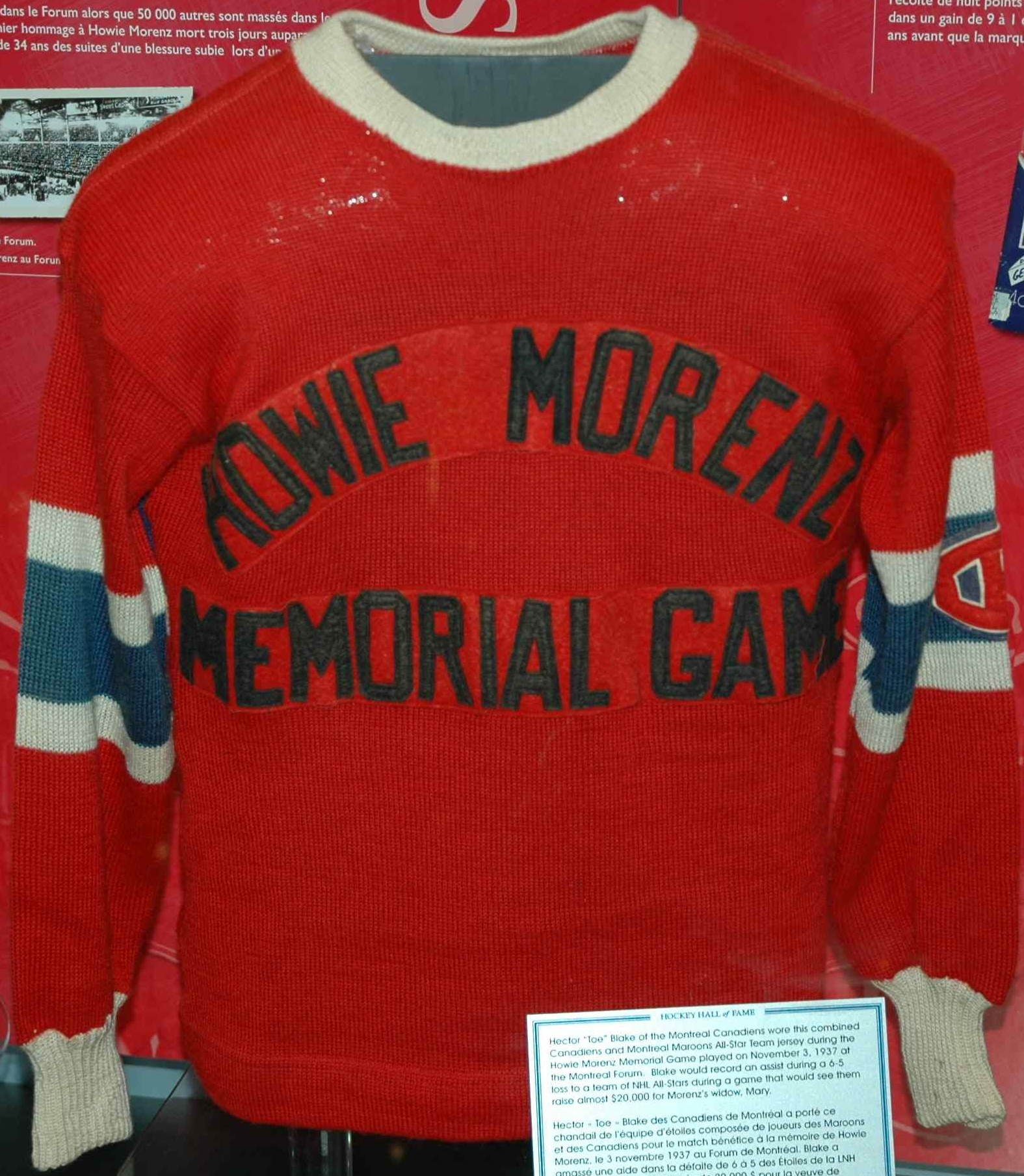 Toe Blakes Jersey at the Howie Morenz Benefit All-Star Game